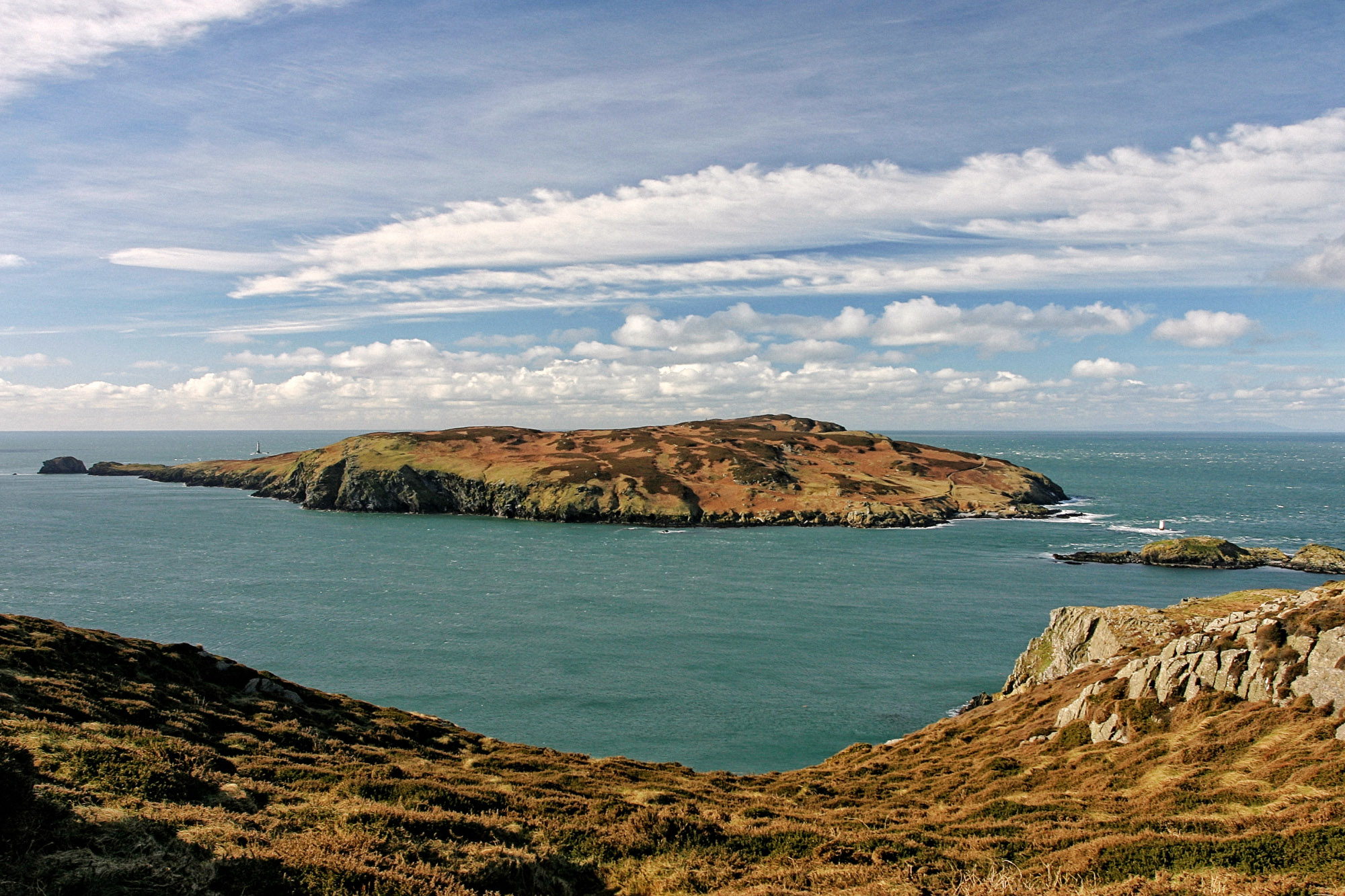 The Calf of Man Looking SW from the cliff path: Kitterland and the Thousla Rock on the right, the Chicken Rock lighthouse just visible to the left. Feb 2005.